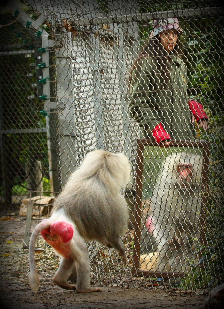 The mirror test - a Baboon looking at at his own reflection